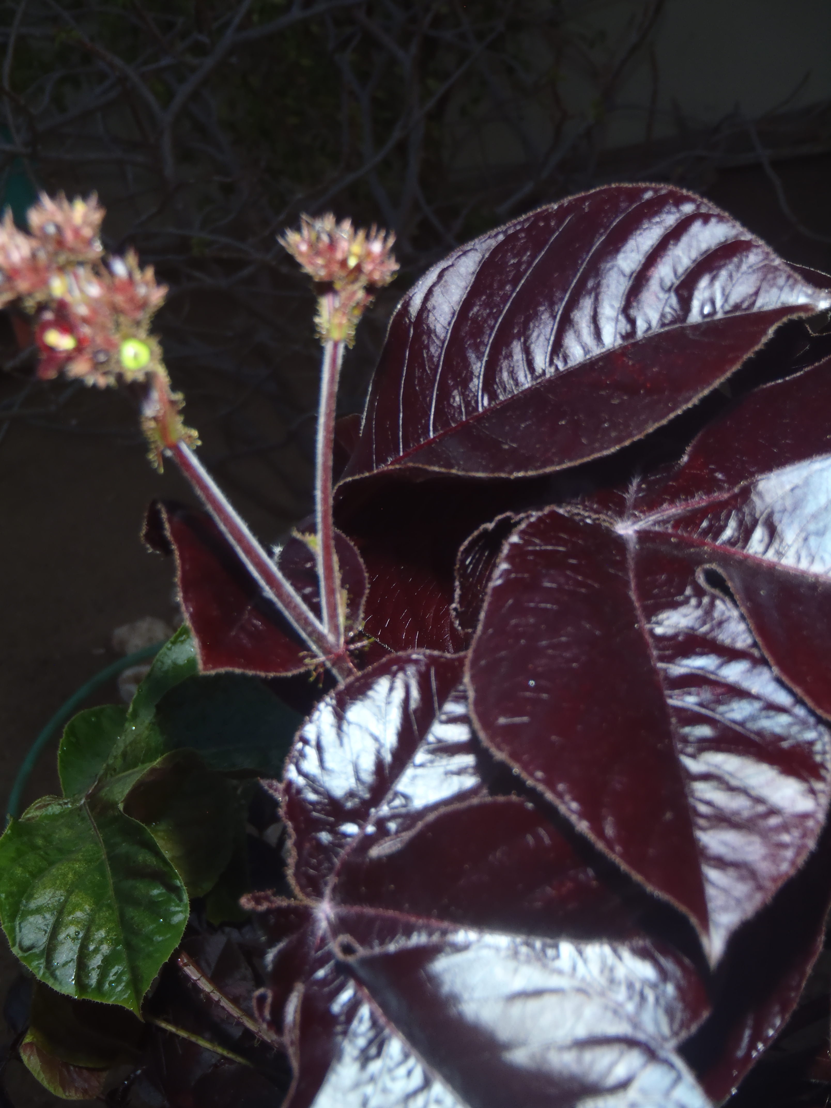 Seida Cora- Jatropha gossypiifolia